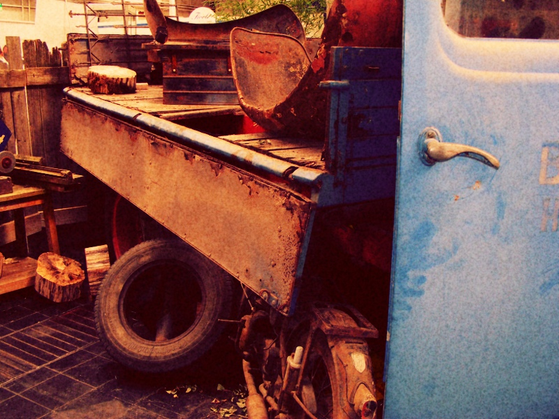 An example of Cross Processing with Gimp